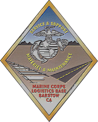 Insignia of Marine Corps Logistics Base Barstow, California